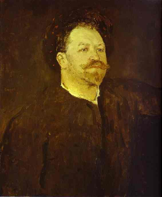 Portrait of the Italian Singer Francesco Tamagno. 1891. Oil on canvas. The Tretyakov Gallery, Moscow, Russia.